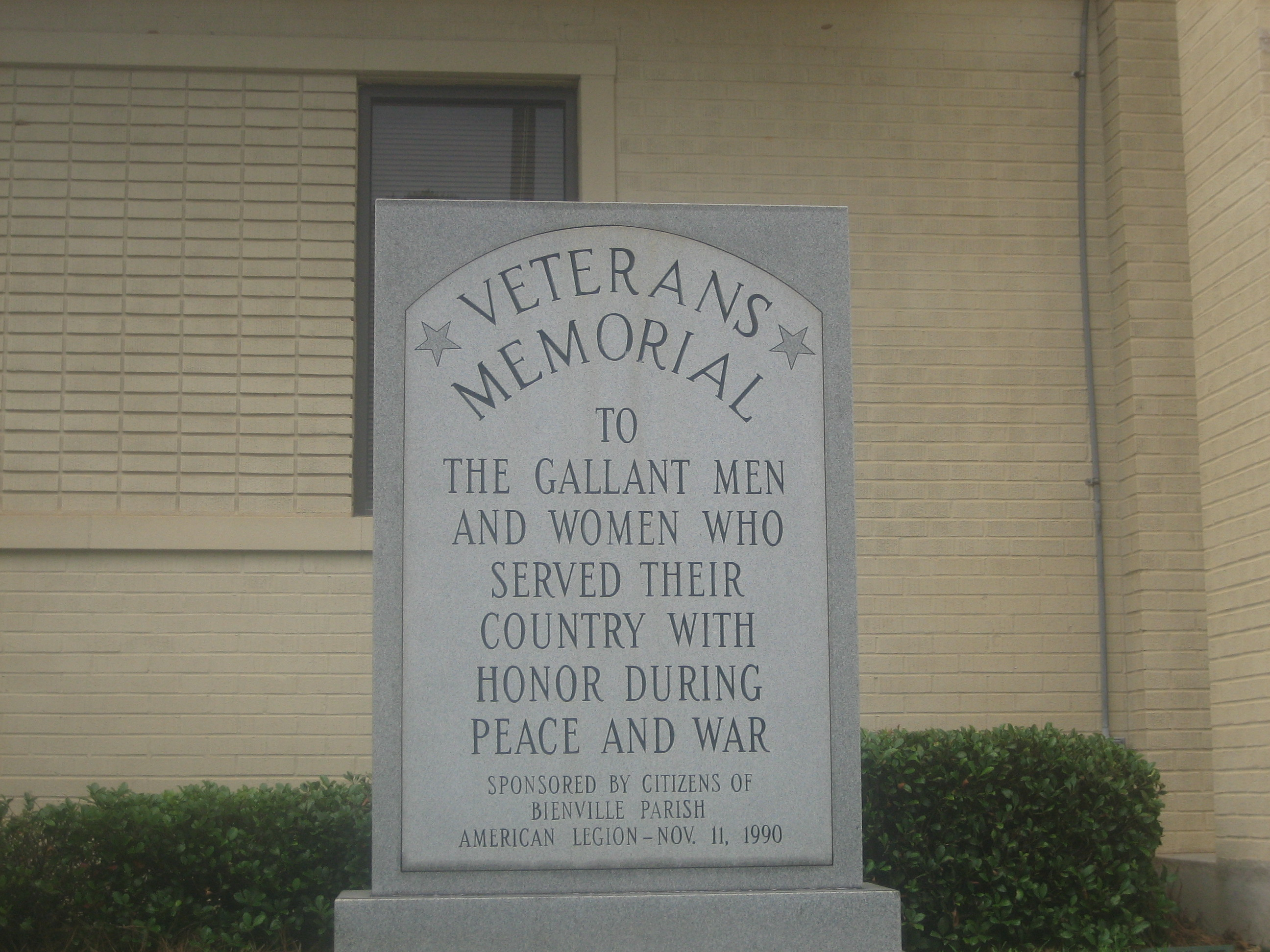 I took photo on May 25, 2009.Billy Hathorn (talk) 02:35, 30 May 2009 (UTC)